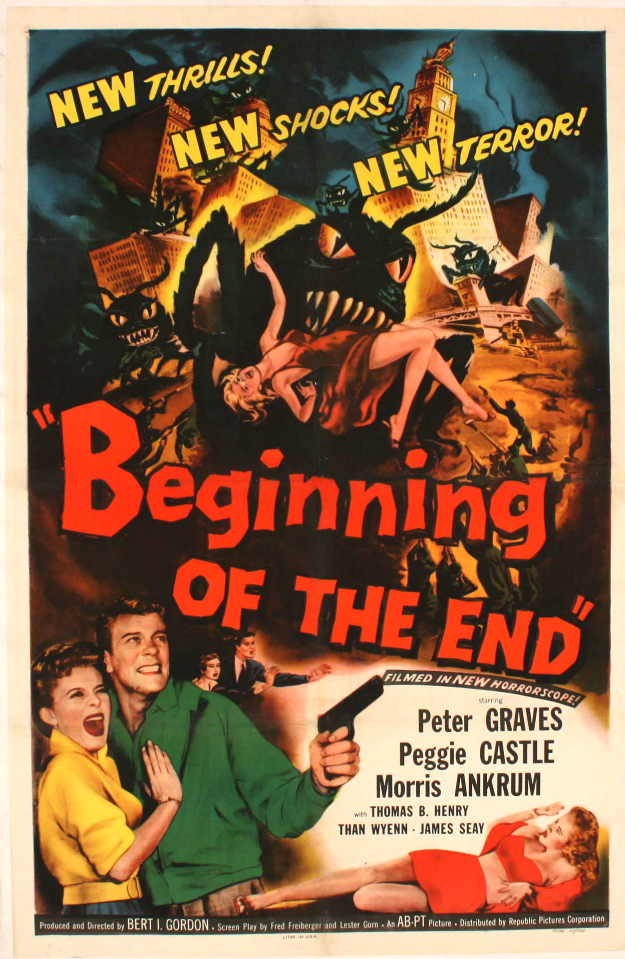 Poster for the 1957 film Beginning of the End. The item has no copyright markings on it as can be seen in the links above. At bottom is Litho in USA and (numbers look like) 58786 57/530.